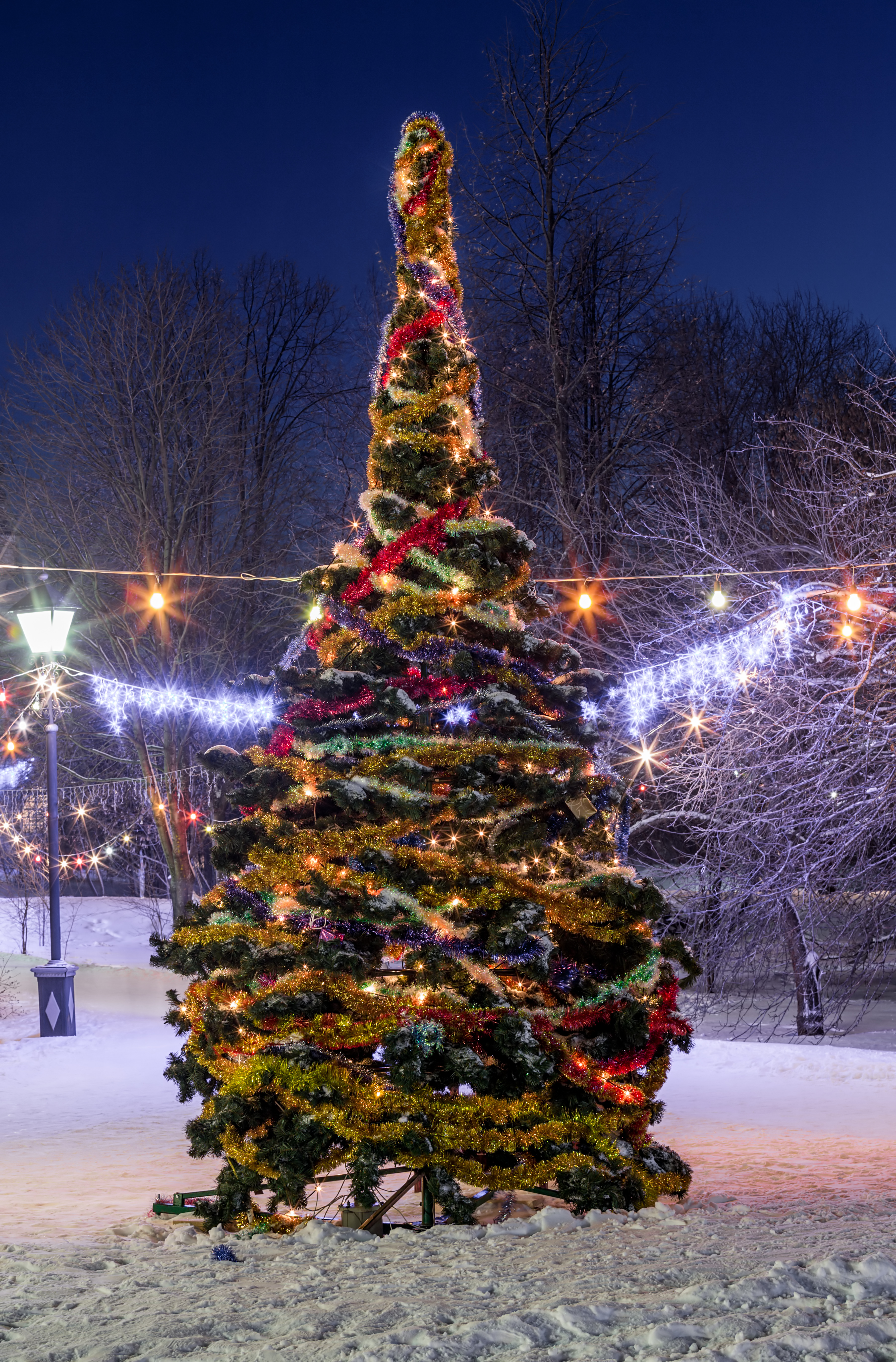 Christmas tree. Pereslavl museum, Christmas 2015